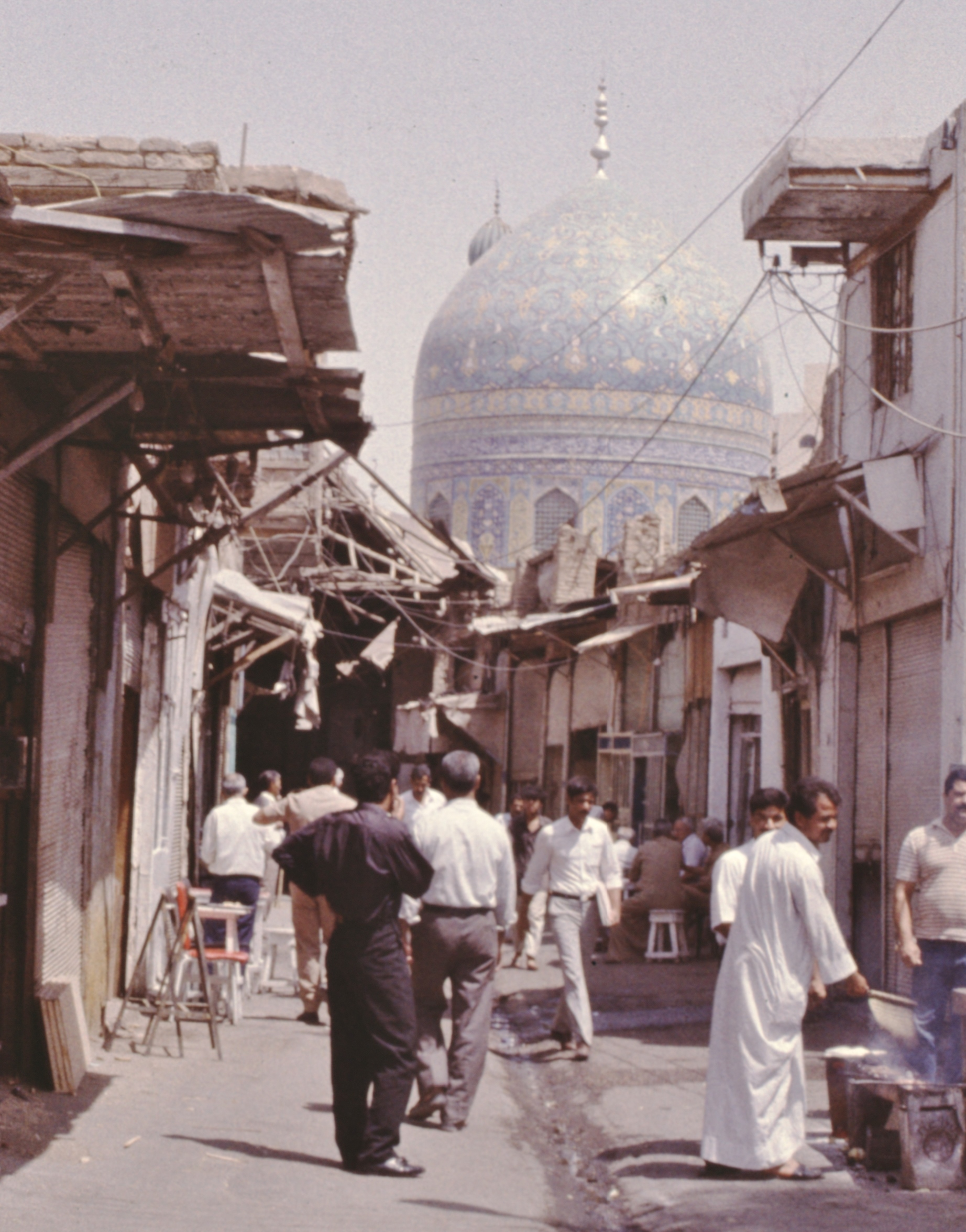 a city in Iraq (Baghdad?)